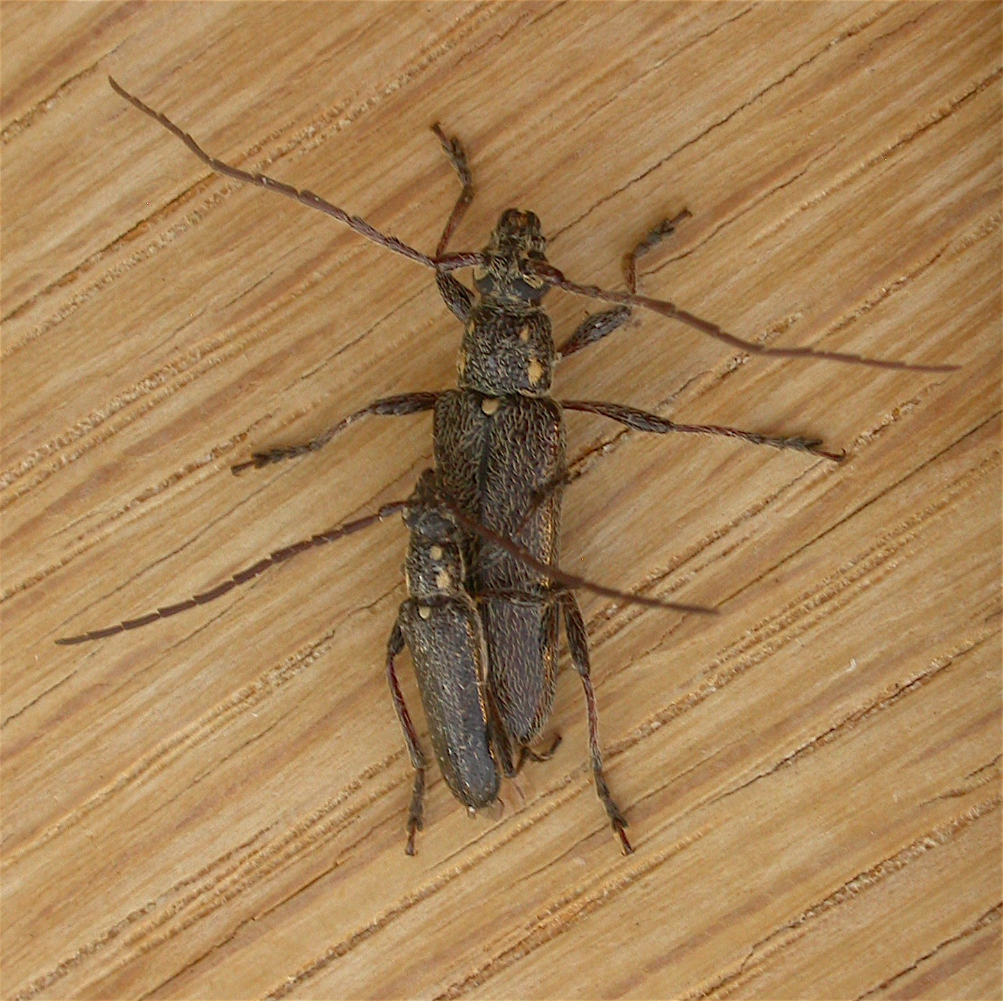 Strongylurus arduus Elliot & McDonald, 1972, male and female, to MV light, Aranda, ACT, 29/30 January 2009